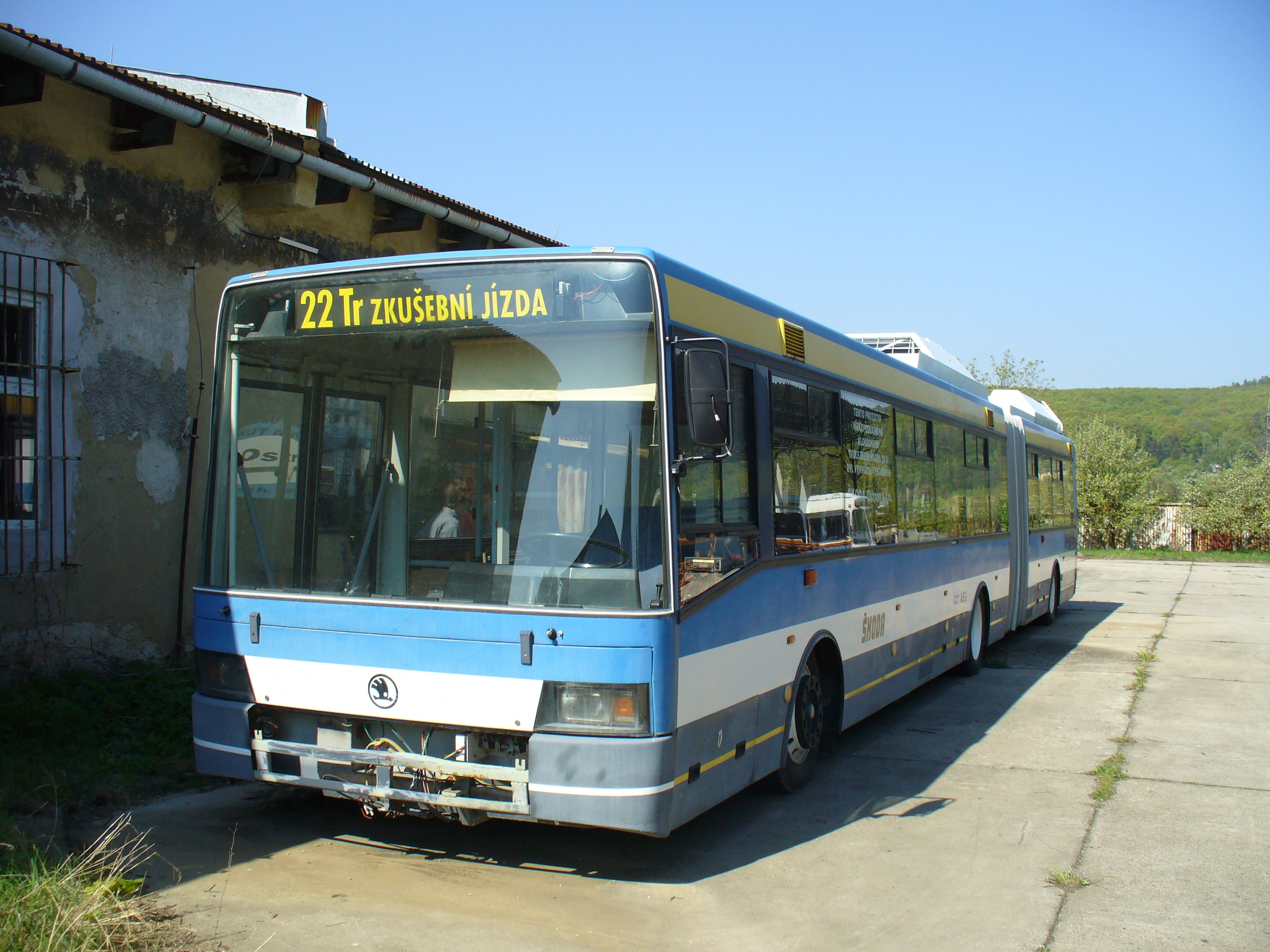 Low floor articulated trolleybus Škoda 22TrG in the depository of the Technical Museum in Brno (april 2009), Czech Republic